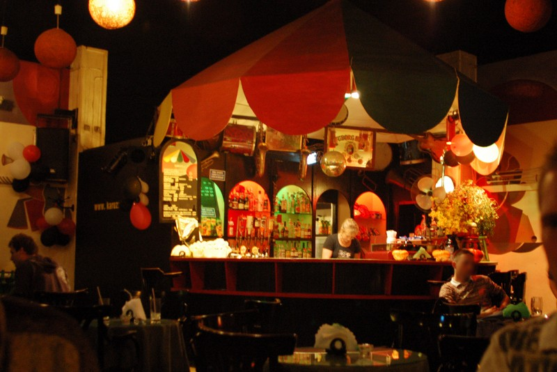 Inside Karuzela Club.